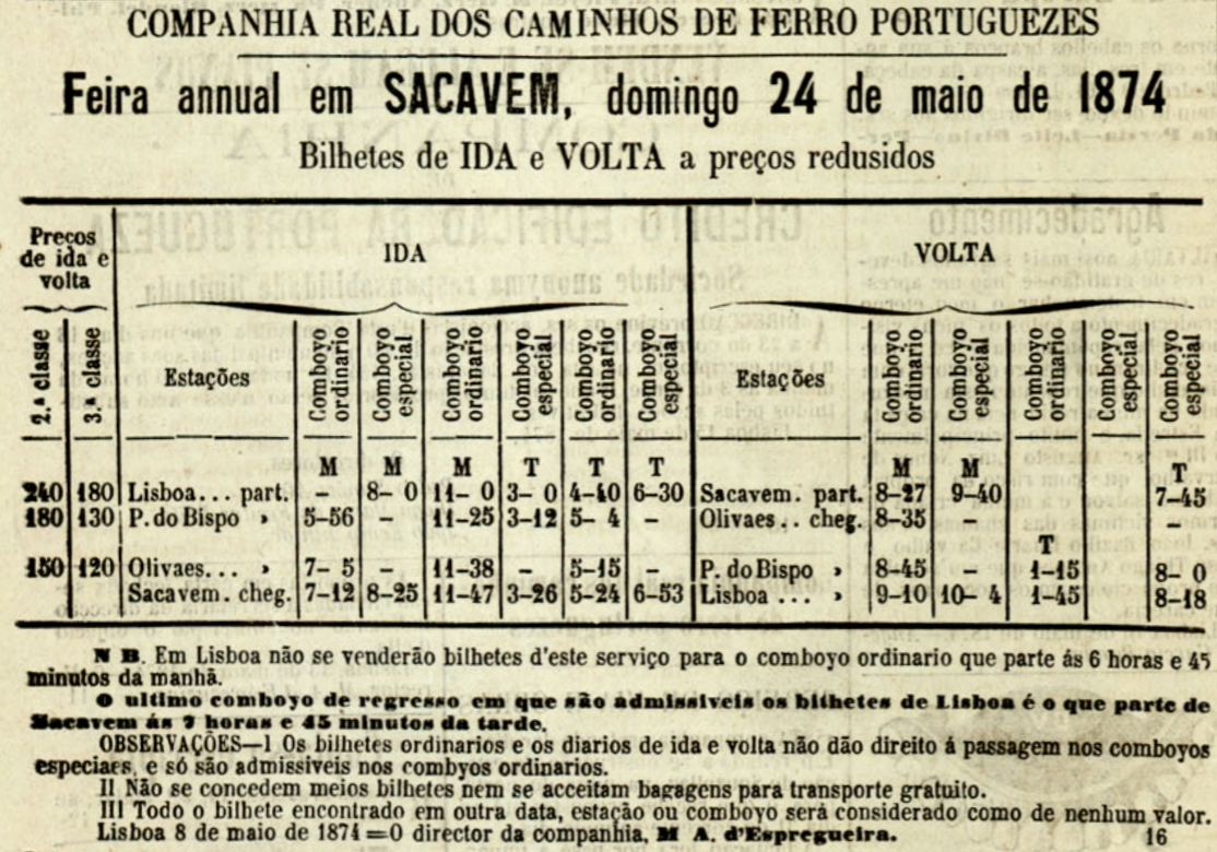 Advertisement of the Companhia Real dos Caminhos de Ferro Portugueses (Royal Company of the Portuguese Railways), for special trains at reduced prices from Lisbon to Sacavém, for the annual fair. This image was published on the Diario Illustrado newspaper No. 610, of 17th May 1874, and scanned by the Biblioteca Nacional de Portugal.